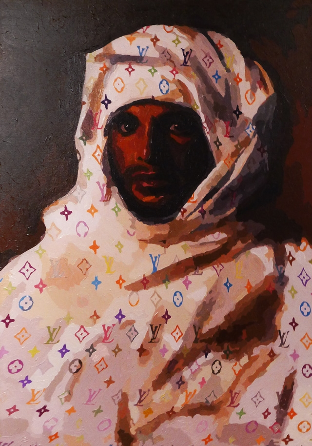 Eric Parnes' culturally noteworthy painting, "Neo Orientalist" (2011). Other information For visual identification of the subject of the article. The article as a whole is dedicated specifically to a discussion of this work.